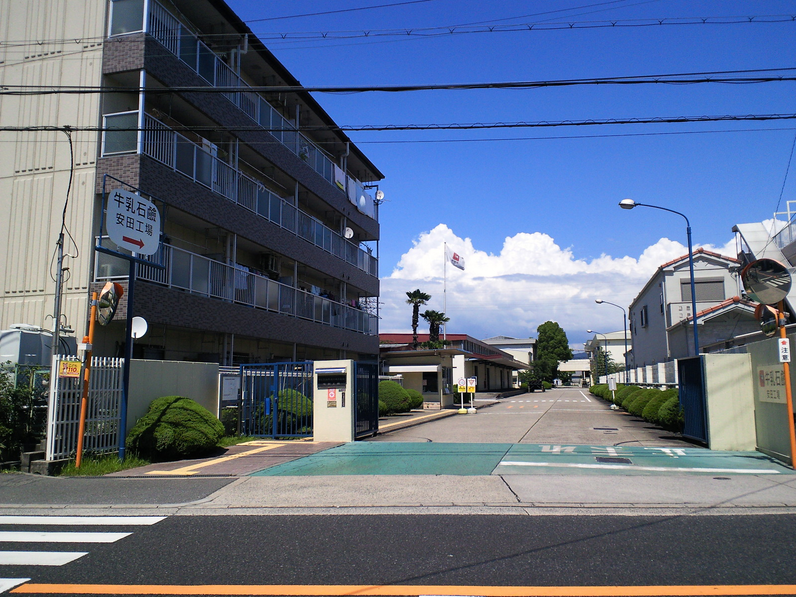 Cow Brand Soap Kyoshinsha Yasuda Factory